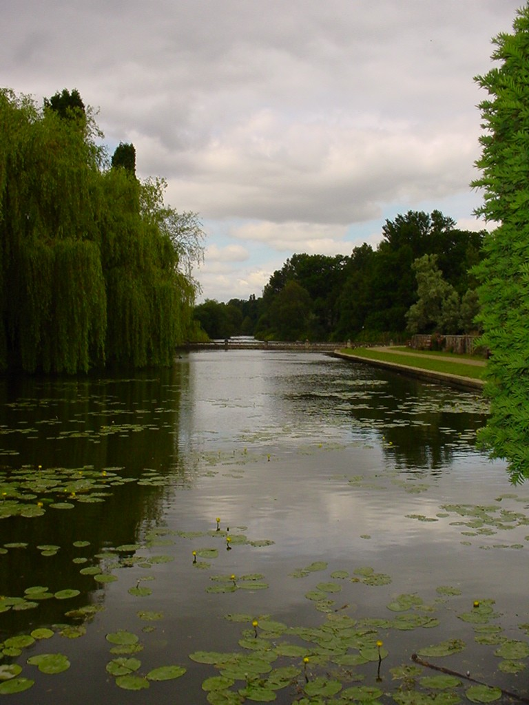 Scenic view of the lake of Coombe Country Park